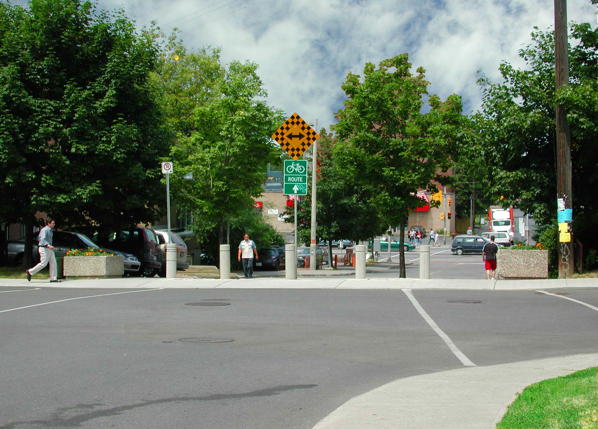 An incidental, unplanned cul-de-sac that enhances traffic on a major commercial artery by limiting vehicular access to it.